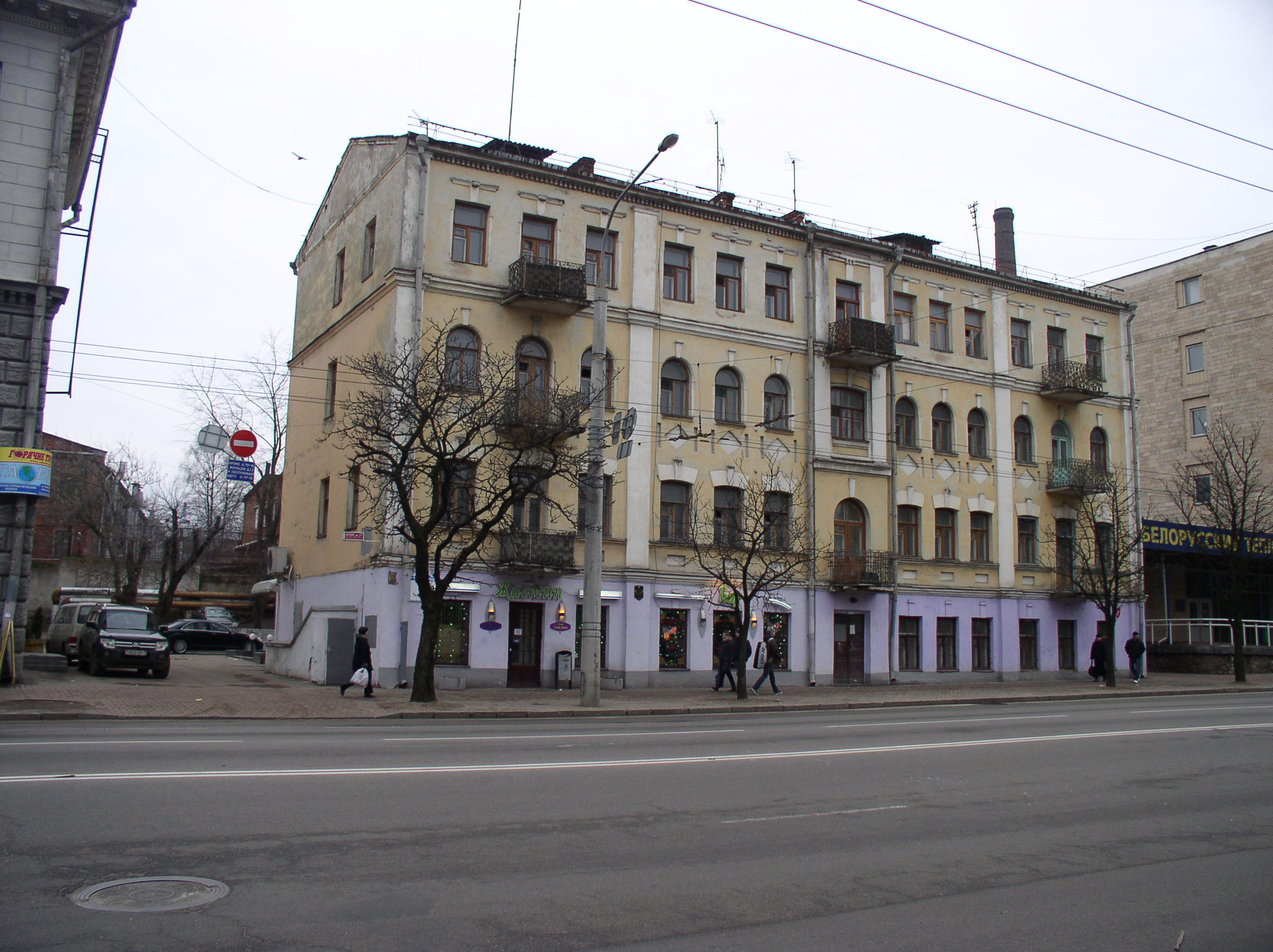 Ramanawskaya Slabada street, 3. Minsk, Belarus.